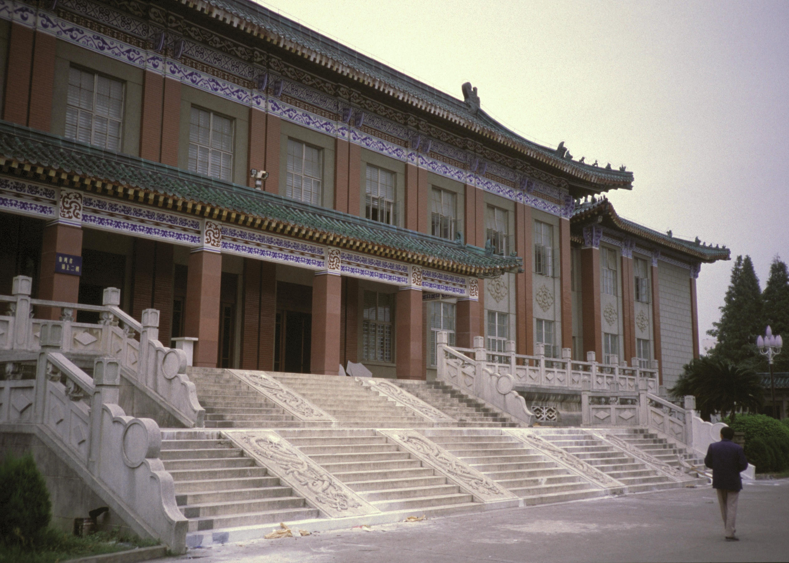 Museum in Jingzhou in Hubei Province, China